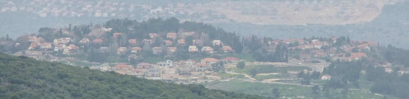 Atzmon from mount Atzmon in the south